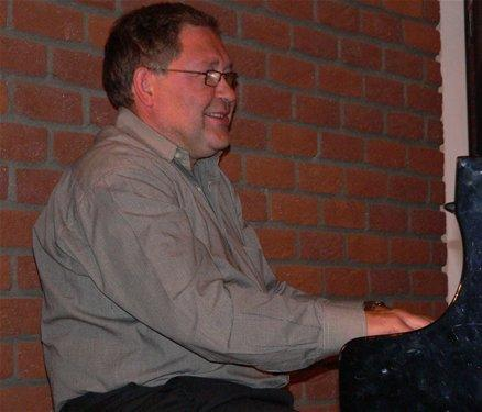 At the piano